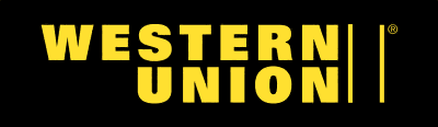 Logo of The Western Union Company, [1] used to identify the company and its services in the article Western Union. Replaces JPEG image File:Westernunionlogoac.jpg. The words "money transfer" are present for historical reasons, as they were cropped out of an older version of this image. The logo consists of the text "WESTERN UNION" in a sans-serif font and two pipe (|) characters and is probably even less original in a copyright sense than the File:Best Western logo.svg.